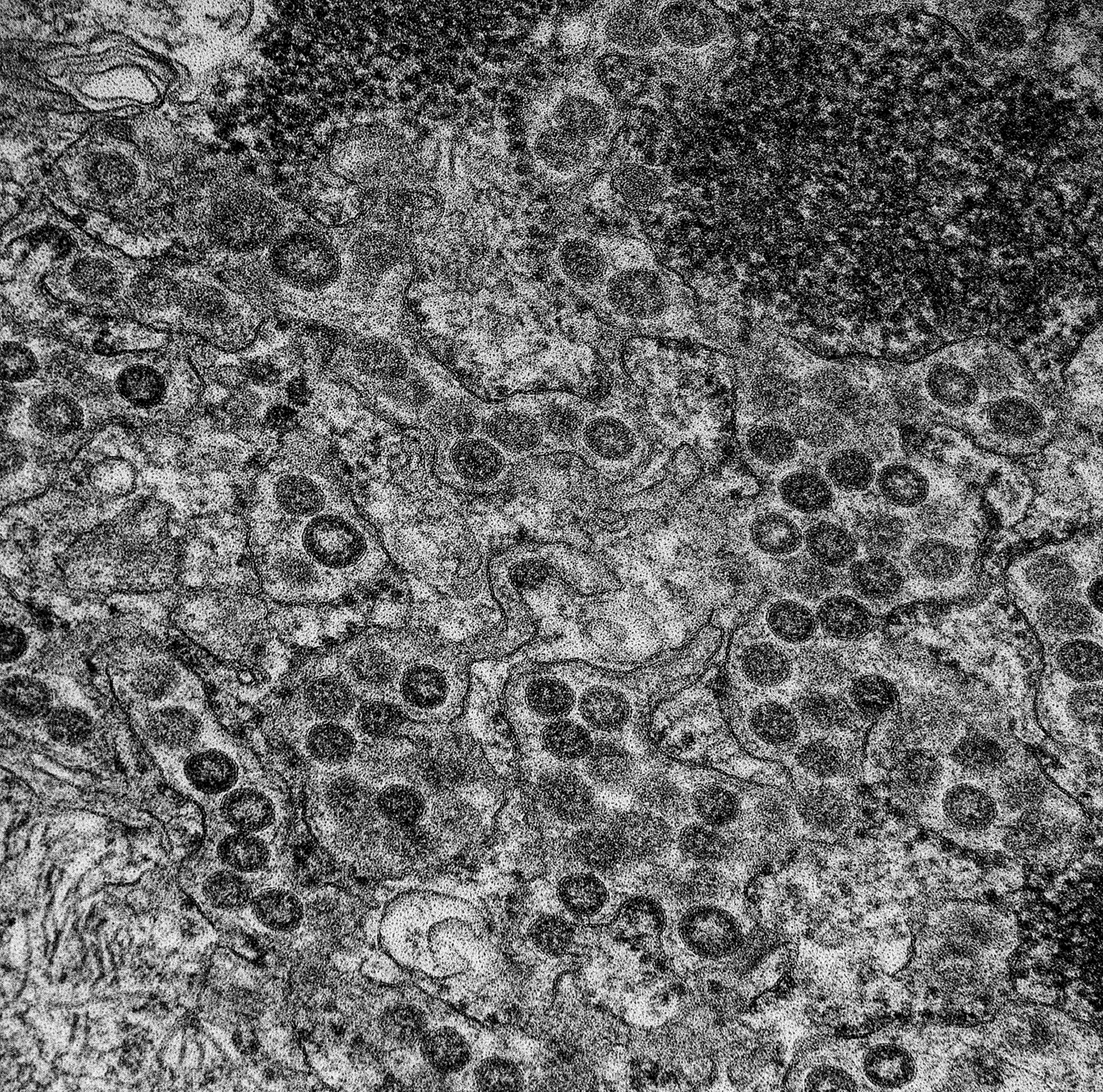 Transmission electron micrograph of Middle Eastern Respiratory Syndrome virusCoV particles found in the lumen of the endoplasmic reticulum in an infected MRC-5 cell. Credit: NIAID